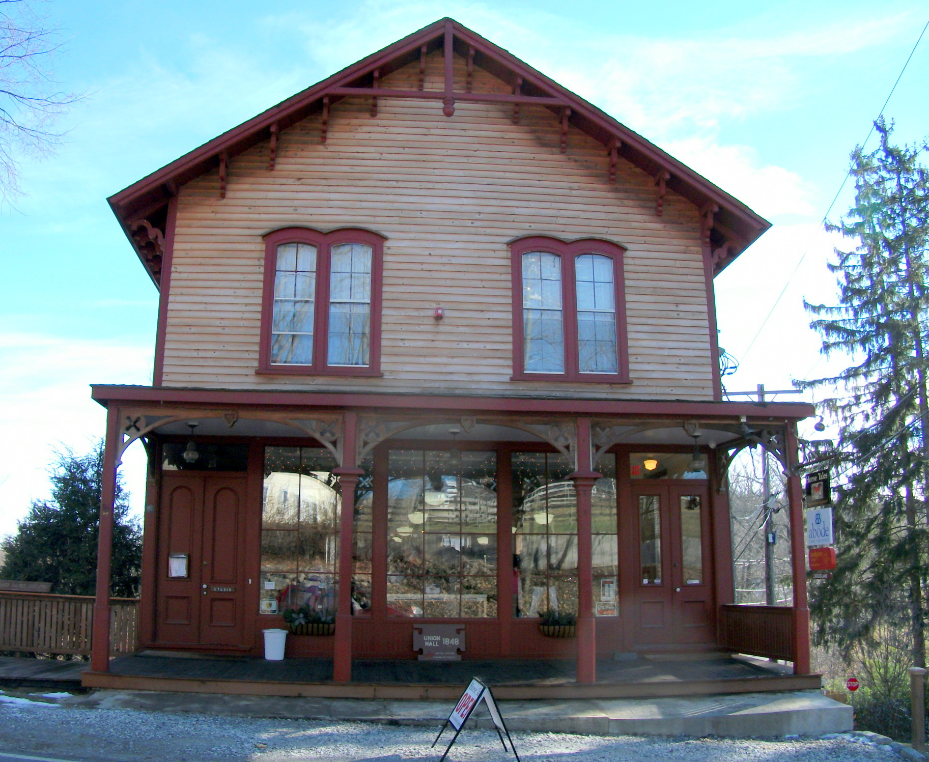 North Salem, New York Cropped from original Camera: Fujifilm FinePix AX200 License on Flickr (2010-12-30): CC-BY-SA-2.0 Flickr tags: North Salem, New York, upstate, westchester, hudson valley, house, church